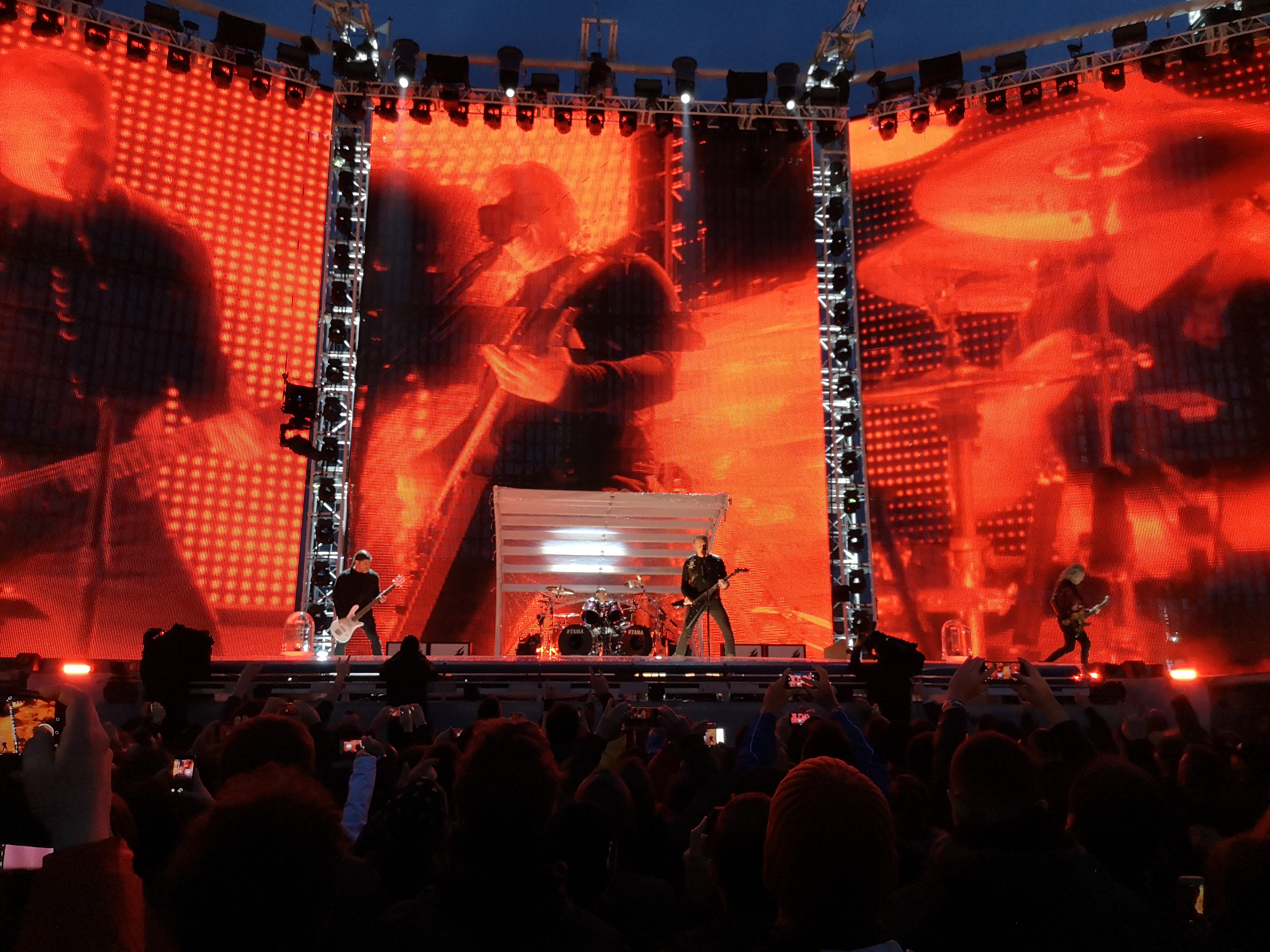 Metallica live at San Siro Hippodrome in Milan on May 8t, 2019 during their WorldWired Tour